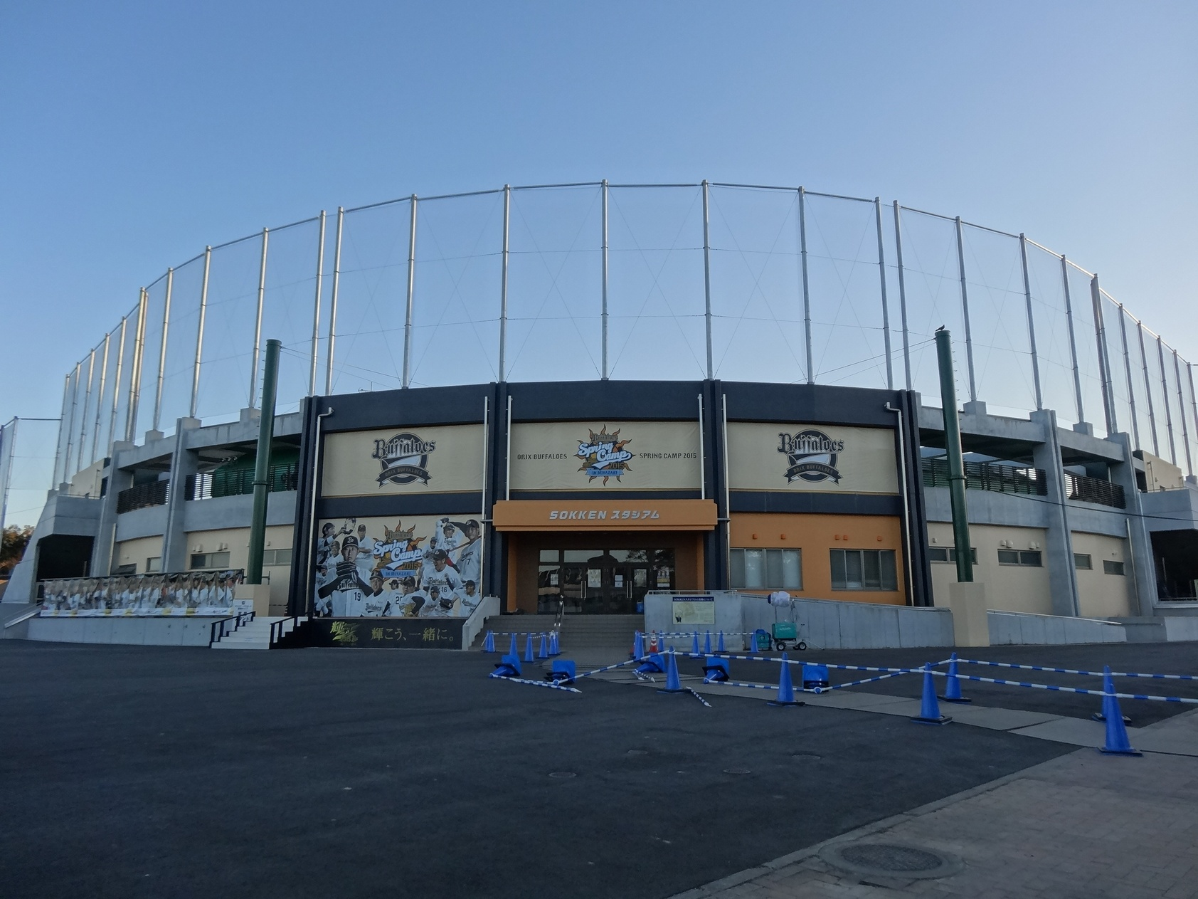 SOKKEN Stadium (Kiyotake, Miyazaki City, Japan)